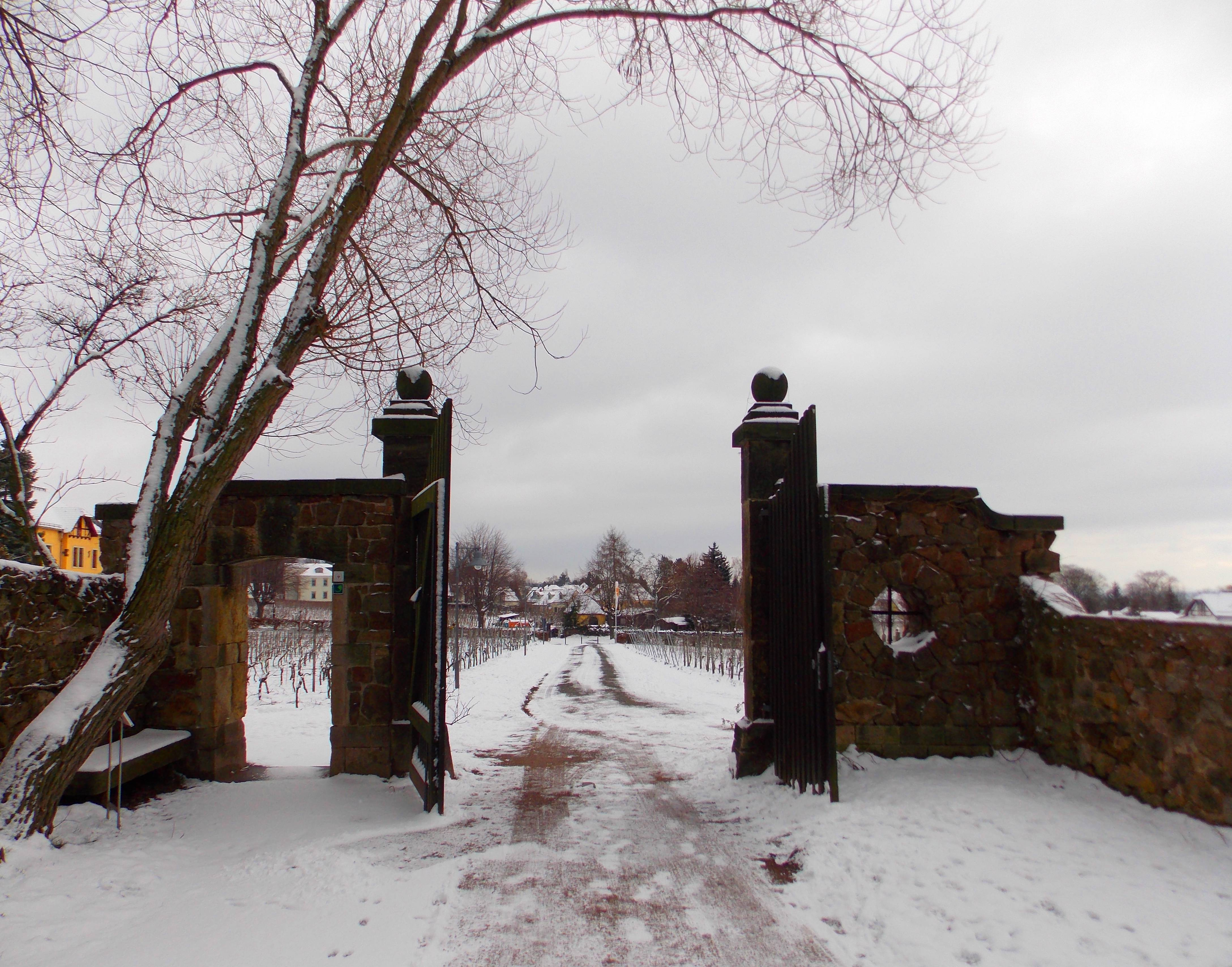 Hoftor